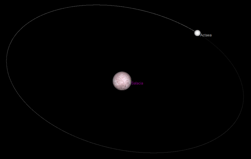 Simulated orbit of en:120347 Salacia and Actaea (moon), scale model with view inclined from orbital plane, compare to diagram at [1]